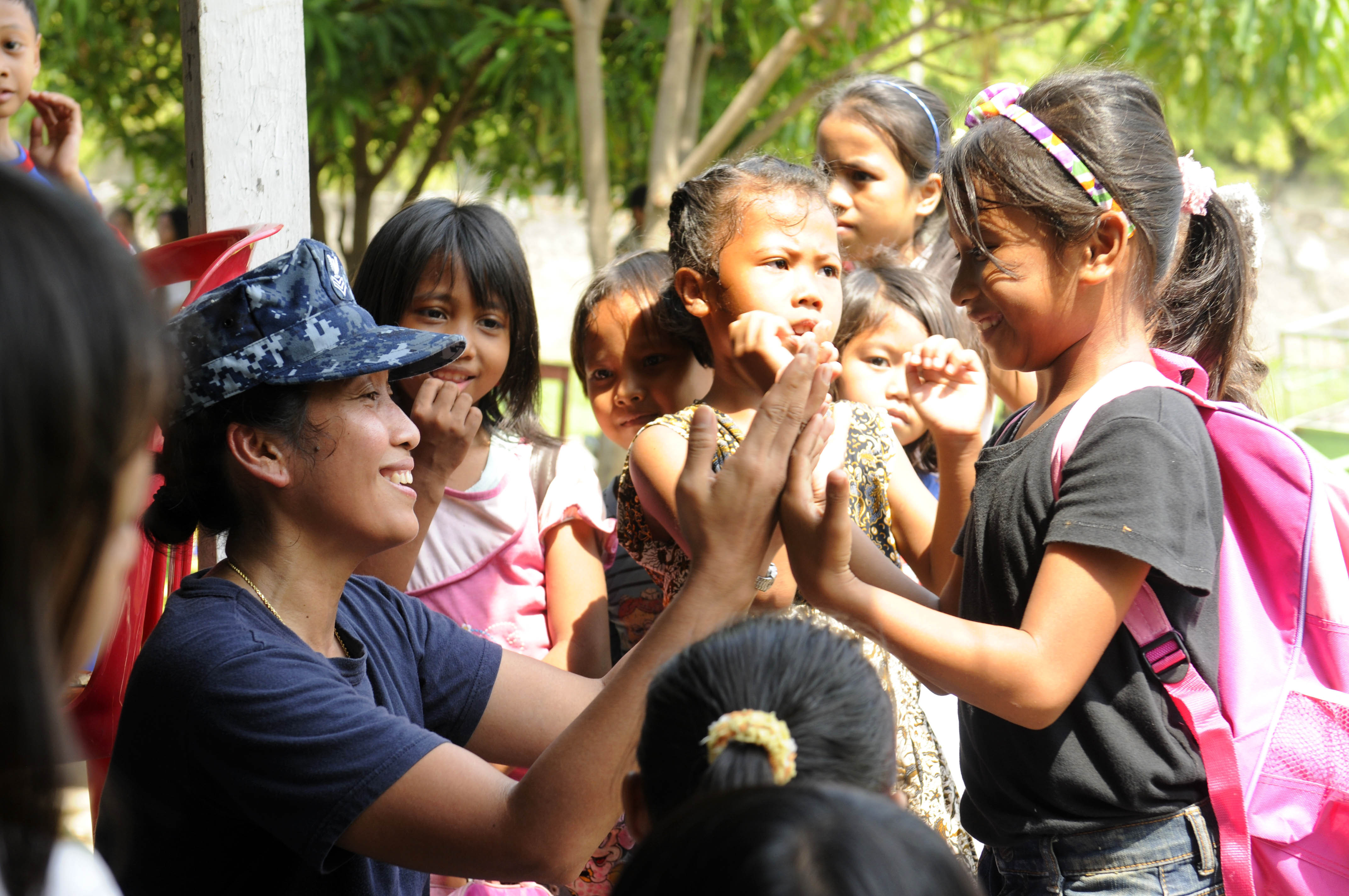 Electrician's Mate 1st Class Sheila Kawahara, assigned to U.S. 7th Fleet flagship USS Blue Ridge (LCC 19), teaches a group of Indonesian girls a clapping game at Yayasan Pendidikan Banglin school during a community service event in Jakarta, Indonesia. These port visits represent an opportunity for U.S. 7th Fleet flagship USS Blue Ridge crewmembers to serve as goodwill ambassadors of the U.S., promoting peace and stability in the region and to demonstrate their commitment to regional partnerships and foster relations. (U.S. Navy photo by Mass Communication Specialist 3rd Class Mel Orr)